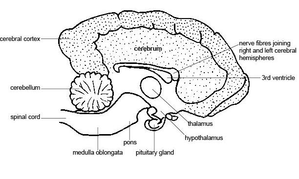 Diagram of LS dogs brain 2008.01 by Ruth Lawson, Otago Polytechnic